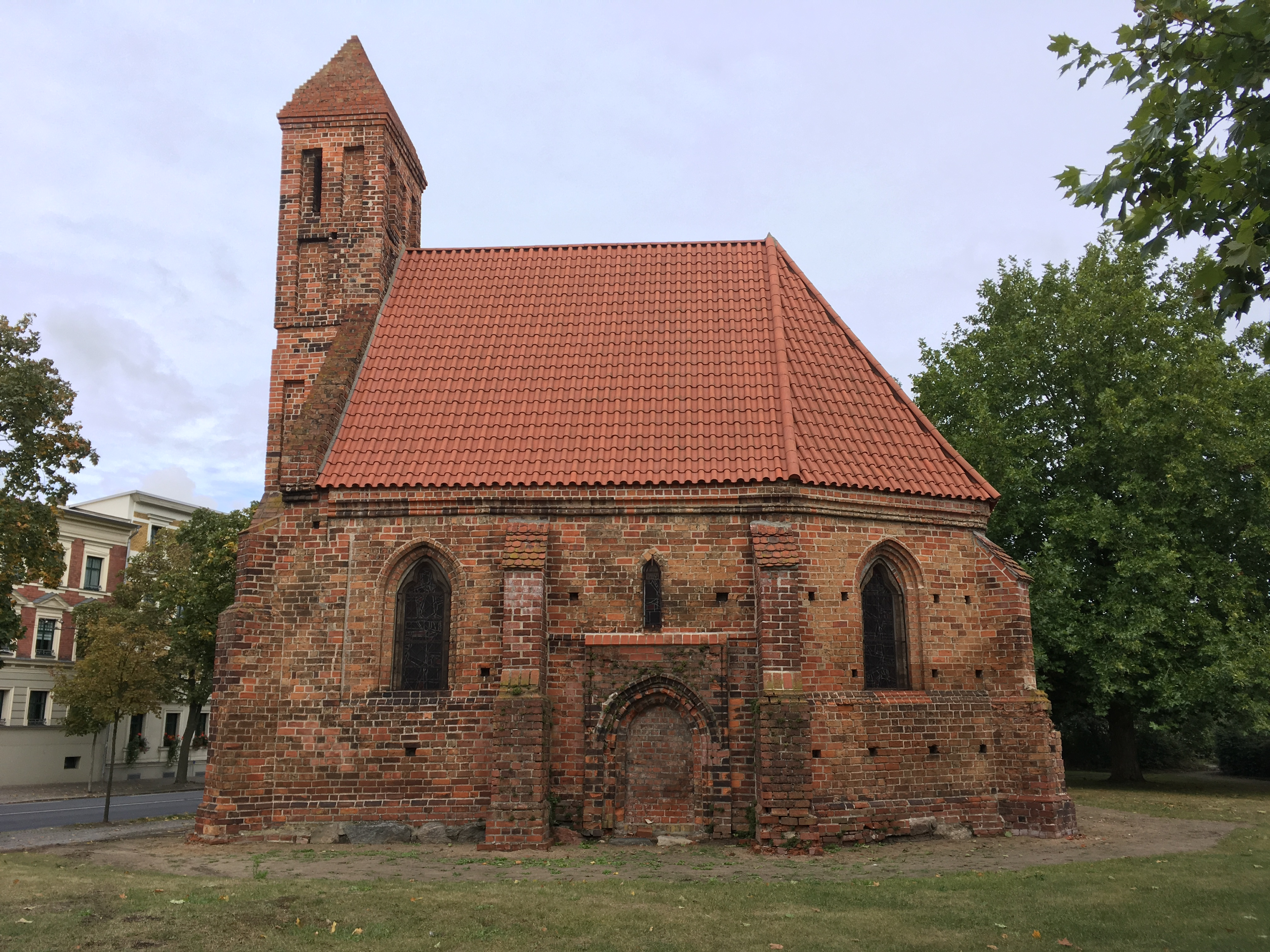 Former hospital chapel, dedicated to St. George, from the 14th century in Eberswalde